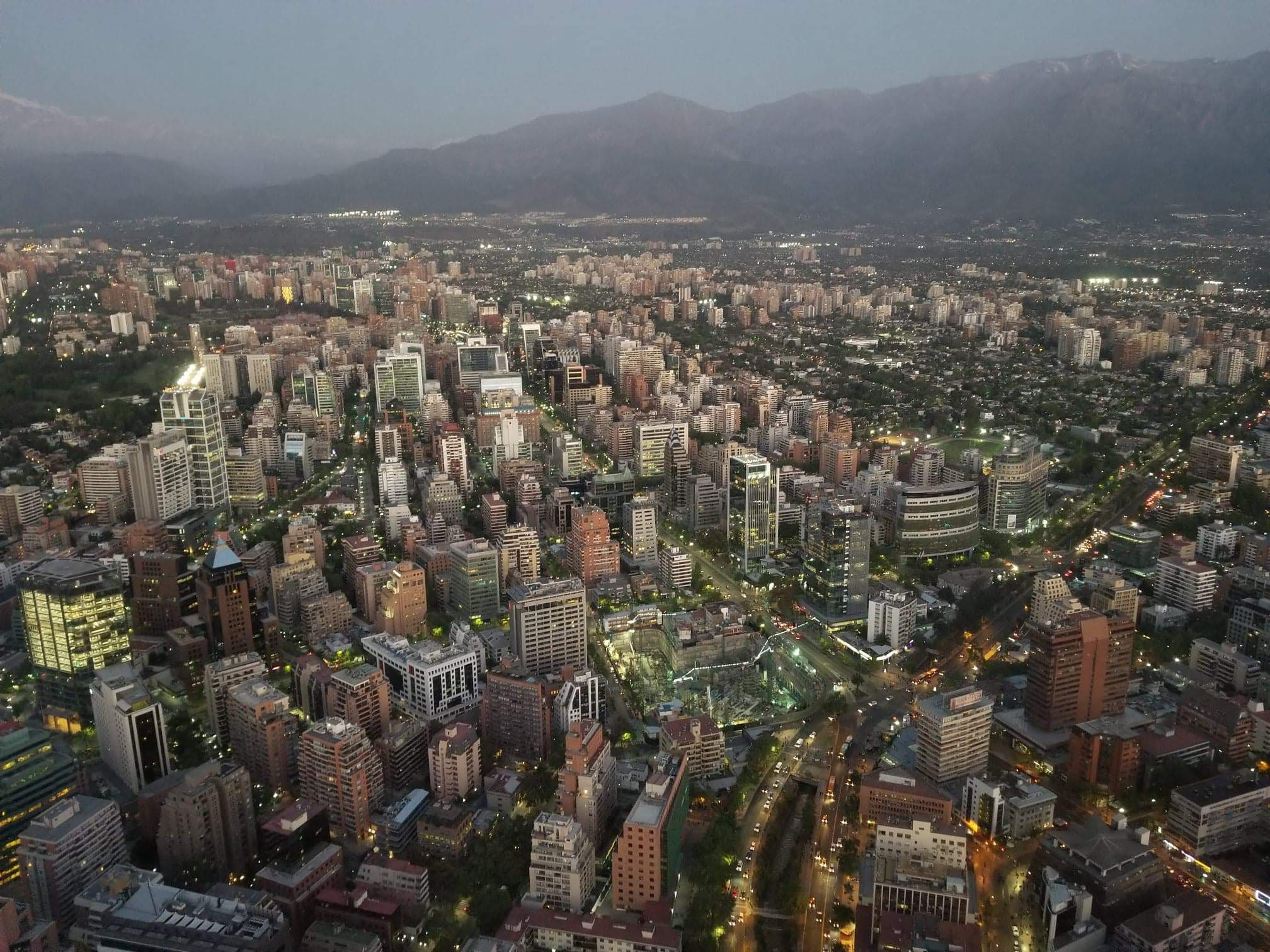 A view of Santiago, Chile looking just north of east from the observation deck at Sky Costanera, nearly a thousand feet above ground level. showing the far northeast of the city, taken Oct 20, 2018 at dusk.